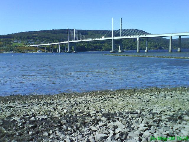 Kessock Bridge Yes, another view of it...